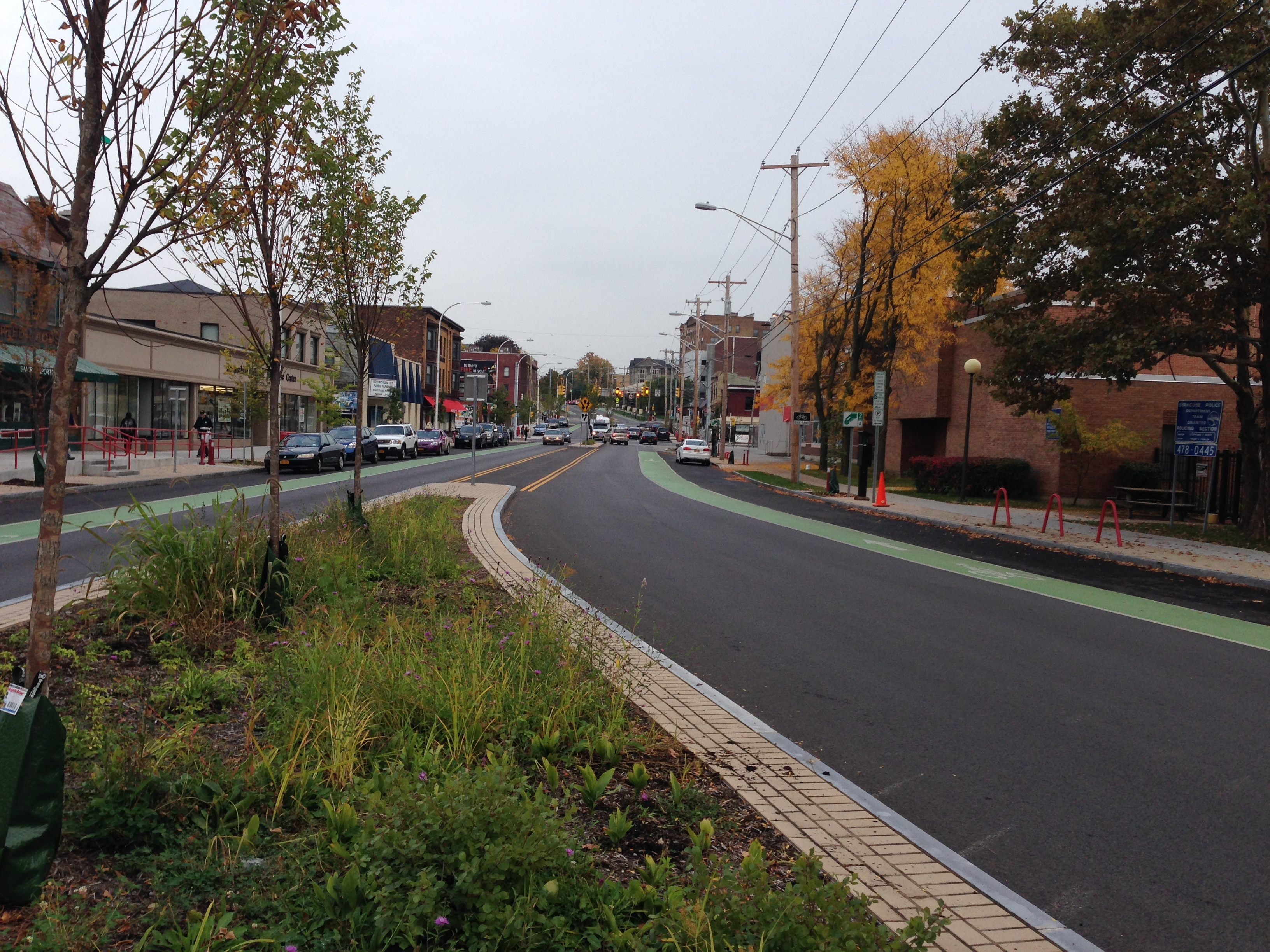 Looking West on East Genesee St. (NY 92) past Forman Park.